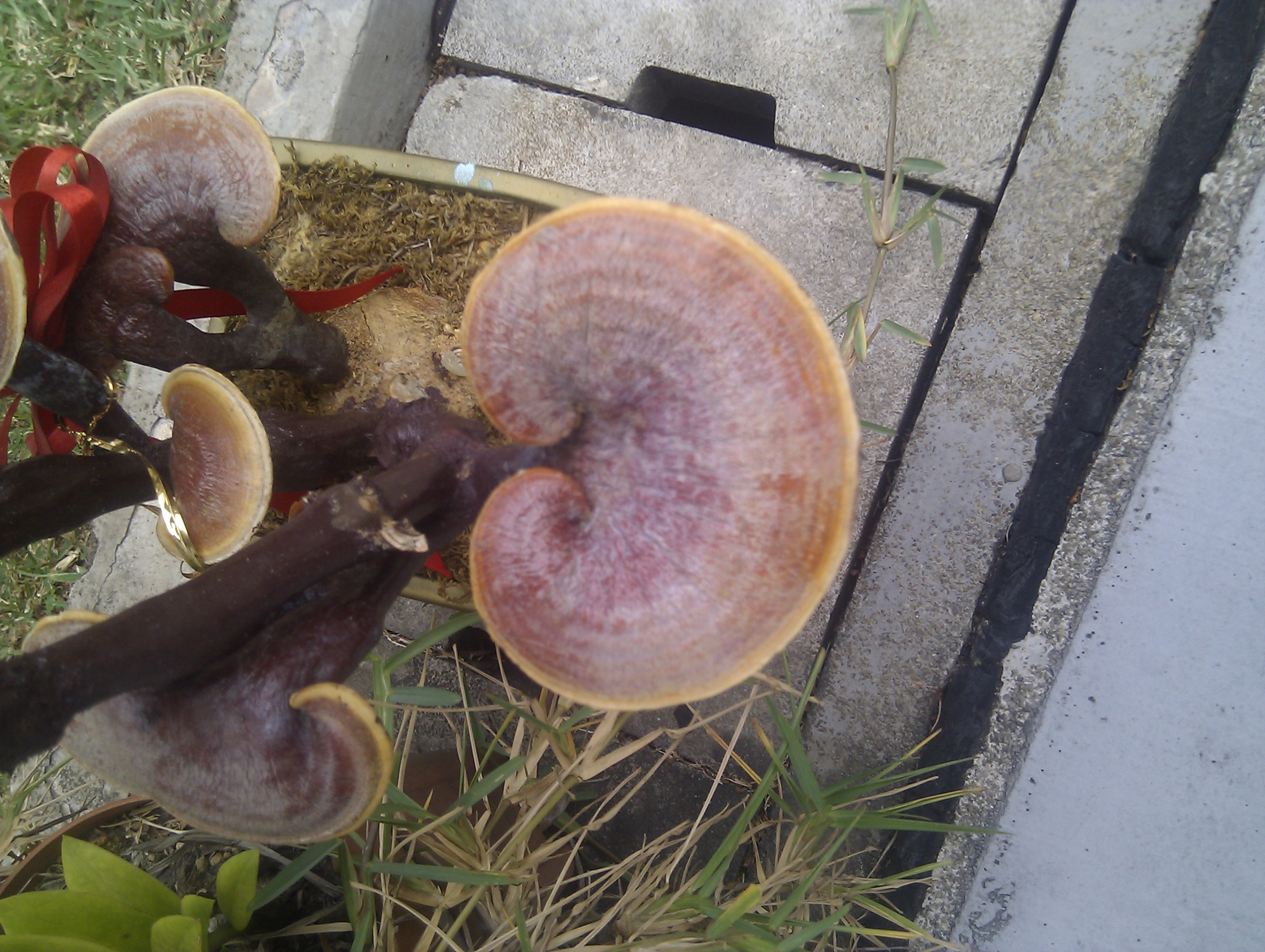 Ganoderma lingzhi Sheng H. Wu, Y. Cao & Y.C. Dai Image location: Singapore What color is the pore surface? G.lingzhi will have a distinctive yellow pore surface. Recognized by sight For more information about this, see the observation page at Mushroom Observer.